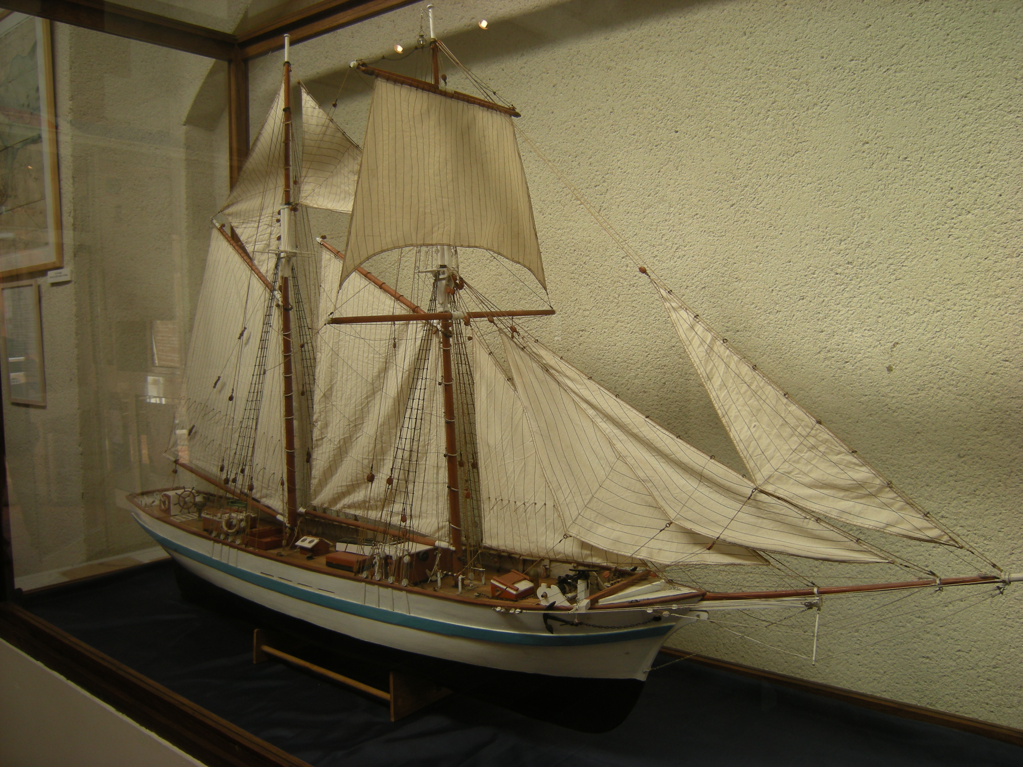 Occasion, schooner 1852, Paimpol